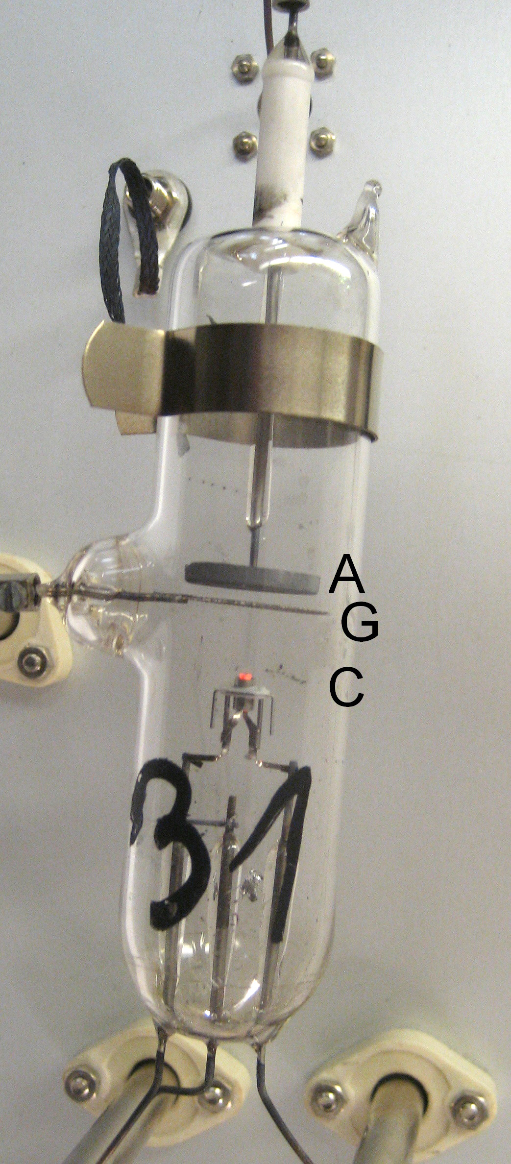 Photograph of a glass vacuum tube (2.7 cm diameter) used for the Franck-Hertz experiment in teaching laboratories. The tube was manufactured by 3B Scientific (part number U8482170). There's a small drop of mercury inside; the vapor pressure of the mercury is controlled by the temperature of the tube. The glowing orange dot labeled C is the hot cathode, which emits electrons. The grid labeled G is a metal screen that lets most electrons pass. The metal disk labeled A is the anode that collects the electrons.